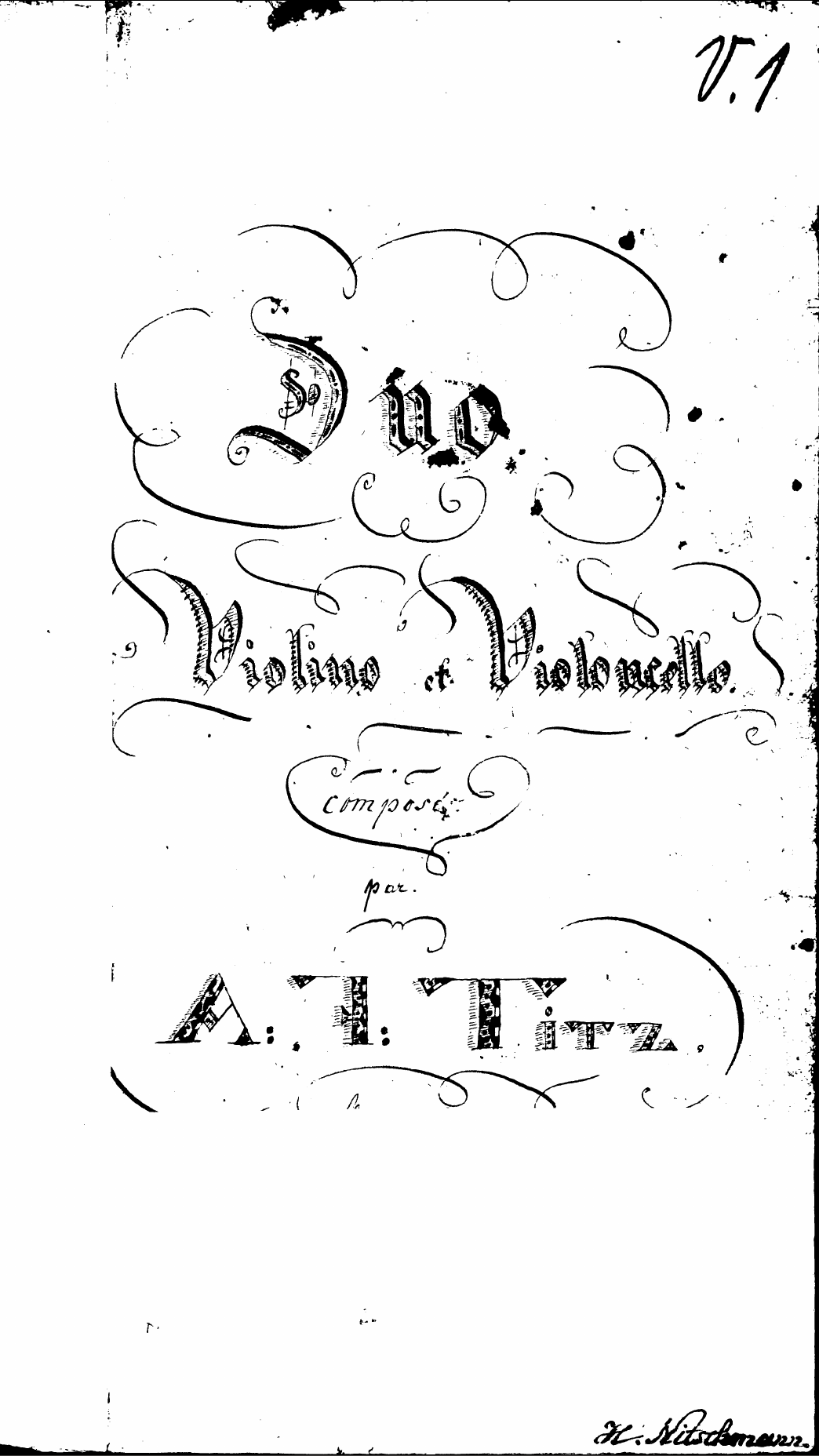 Title page of violin part, from violin and cello duo op. 2 by Anton Ferdinand Titz.